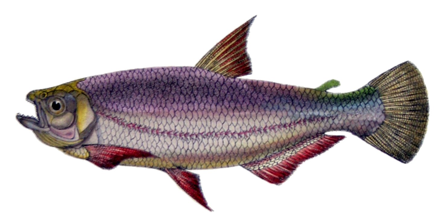 Chalceus carpophagus = Brycon amazonicus